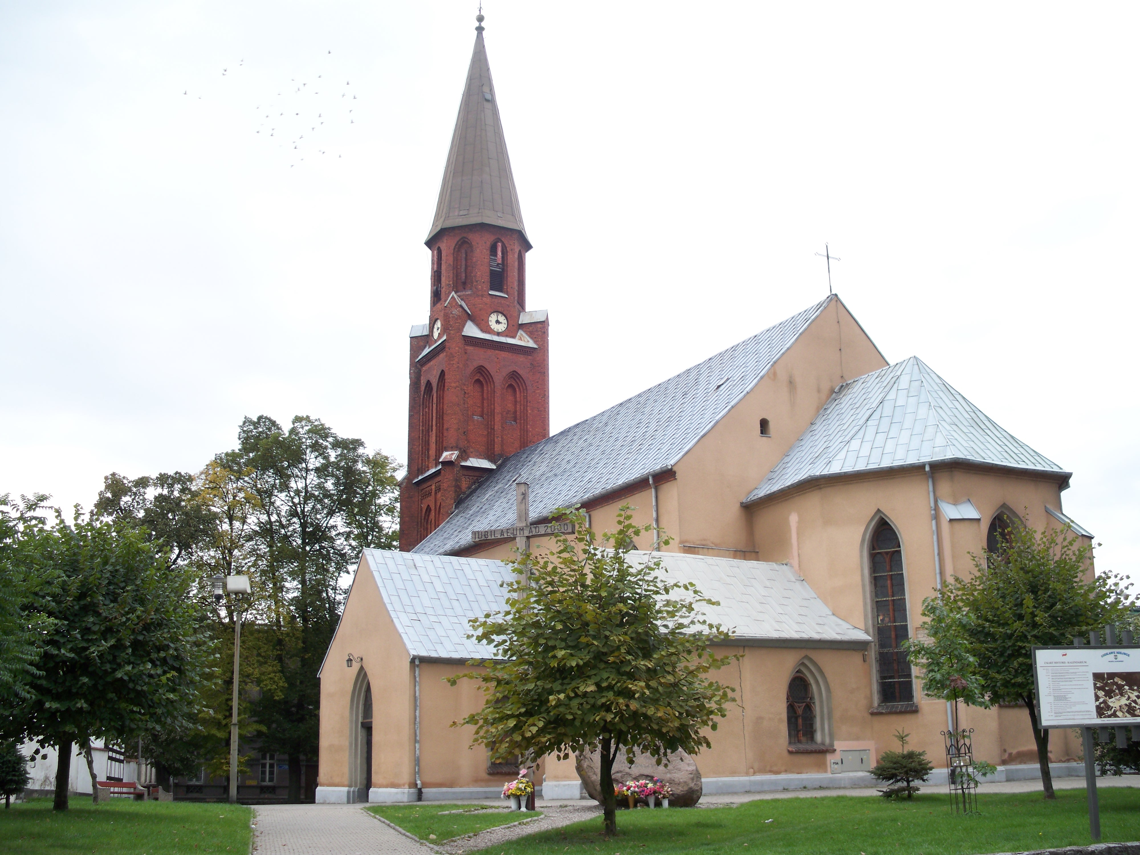 Church of the Assumption in Złocieniec, Poland